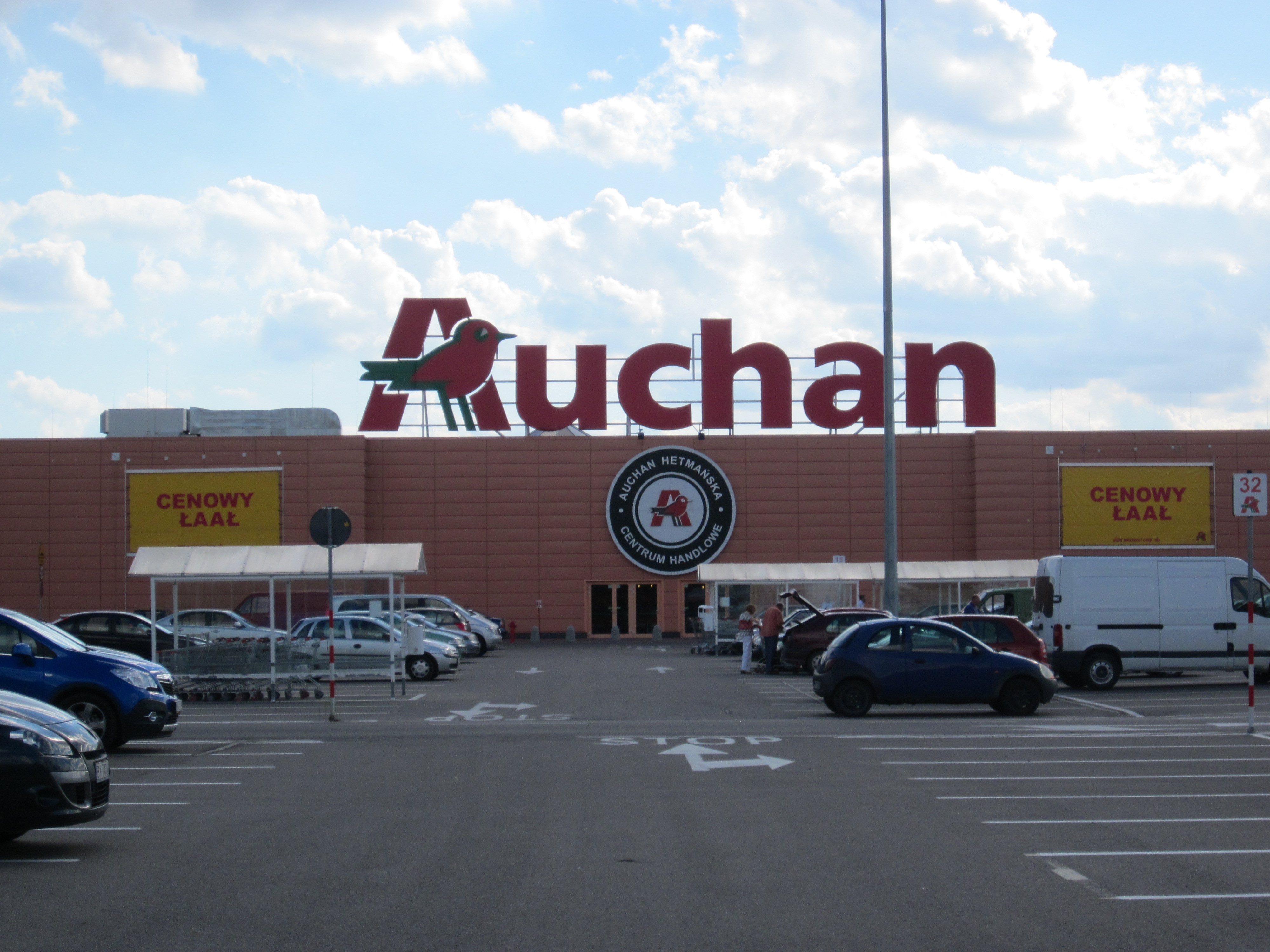 Auchan in Białystok, 16 Hetmańska Street.